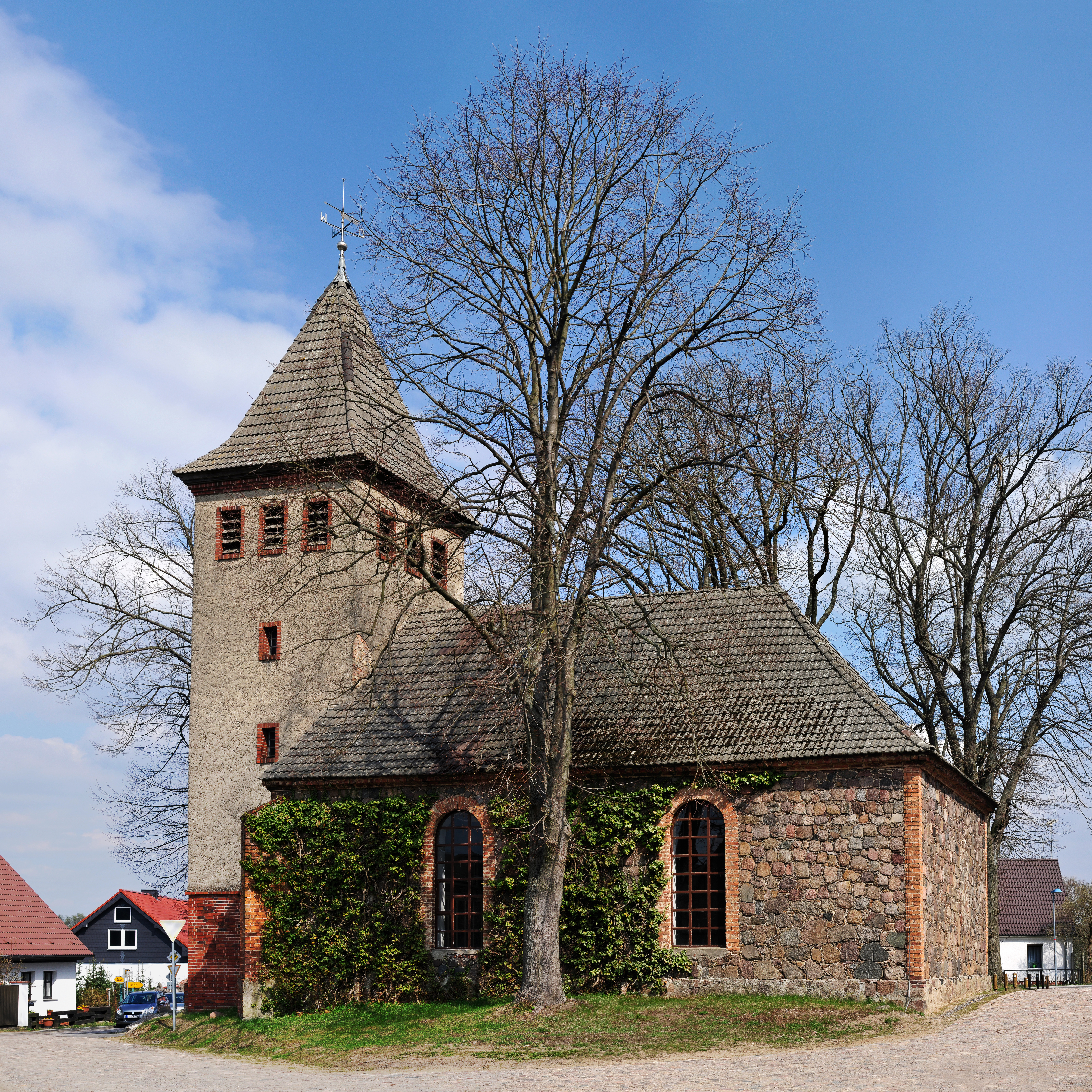 Village Church of Senftenhütte in Germany